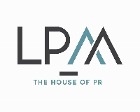 Logo of LPM